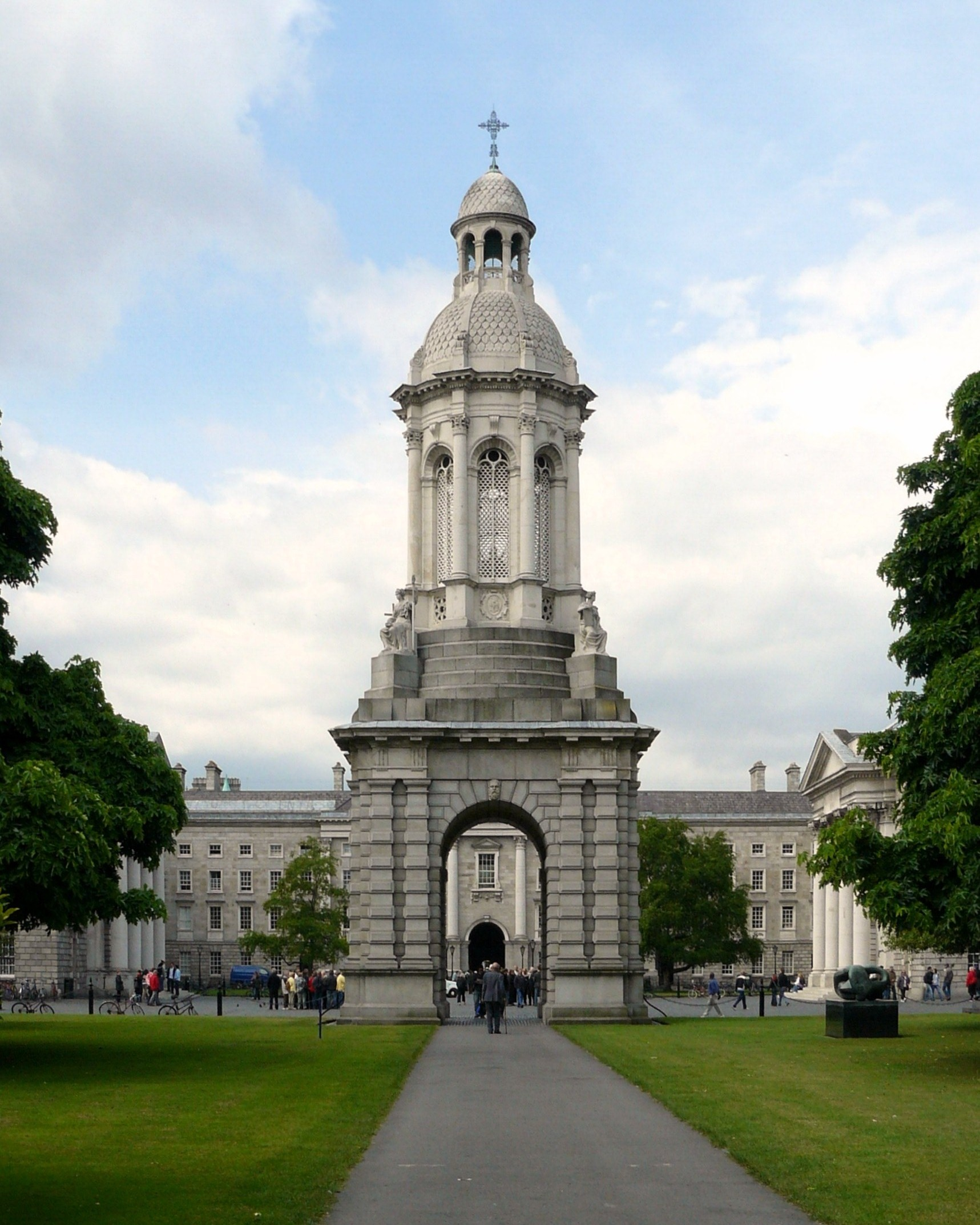 Campanile, Trinity College, Dublin